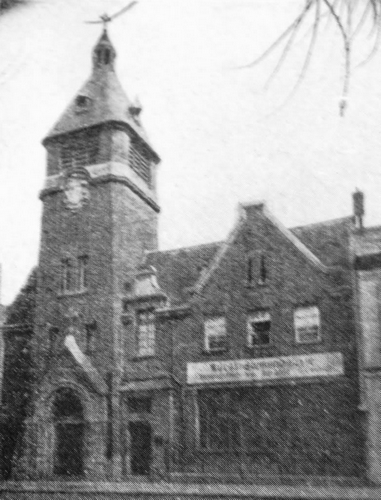 The Norwegian Mariners' Church of Buenos Aires, designed by Alejandro Christophersen and built between 1916 and 1918. Originally located on 1267 Huergo Avenue, the church was demolished by the military dictatorship in 1978 to make way for a freeway.